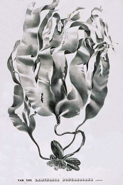 Lithograph of "Laminaria bongardiana palmata", = Saccharina bongardiana